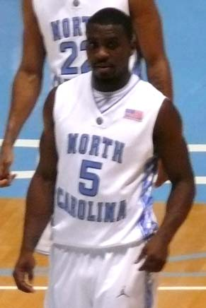 Ty Lawson, formerly of the North Carolina Tar Heels men's basketball team